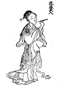 This is a image about the Huarui Furen.